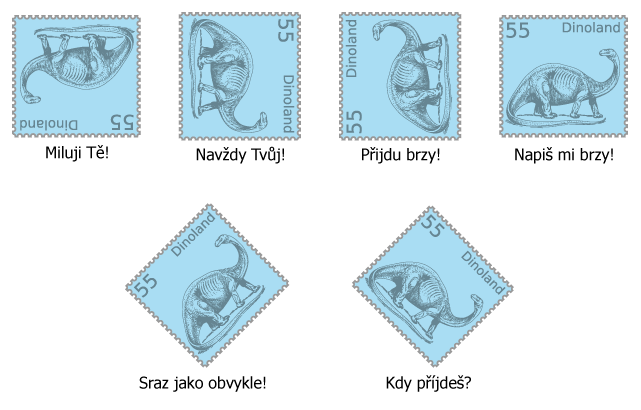 Example of briefsprache (stamp-talk).